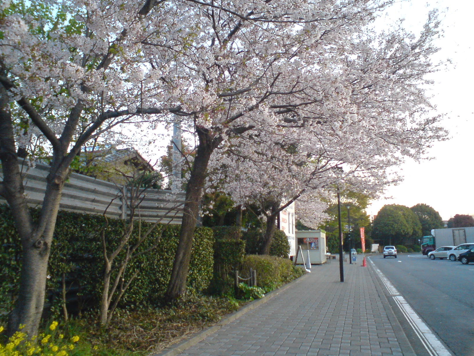 Cherry blossoms at Nihondaira Parking Area on the Tomei Expressway (bound for Tokyo)